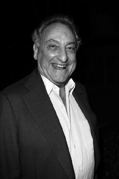 Sanford Weill outside Waverly Inn restaurant in New York City on December 17, 2007.